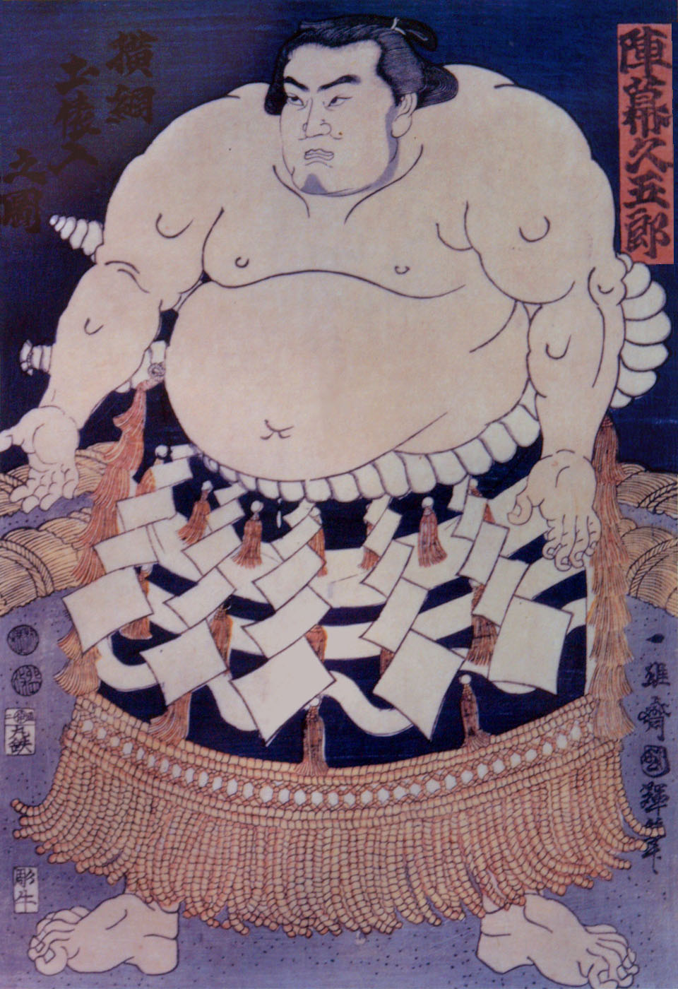 the 12th Yokozuna, Jinmaku Kyūgorō（第12代横綱 陣幕 久五郎）